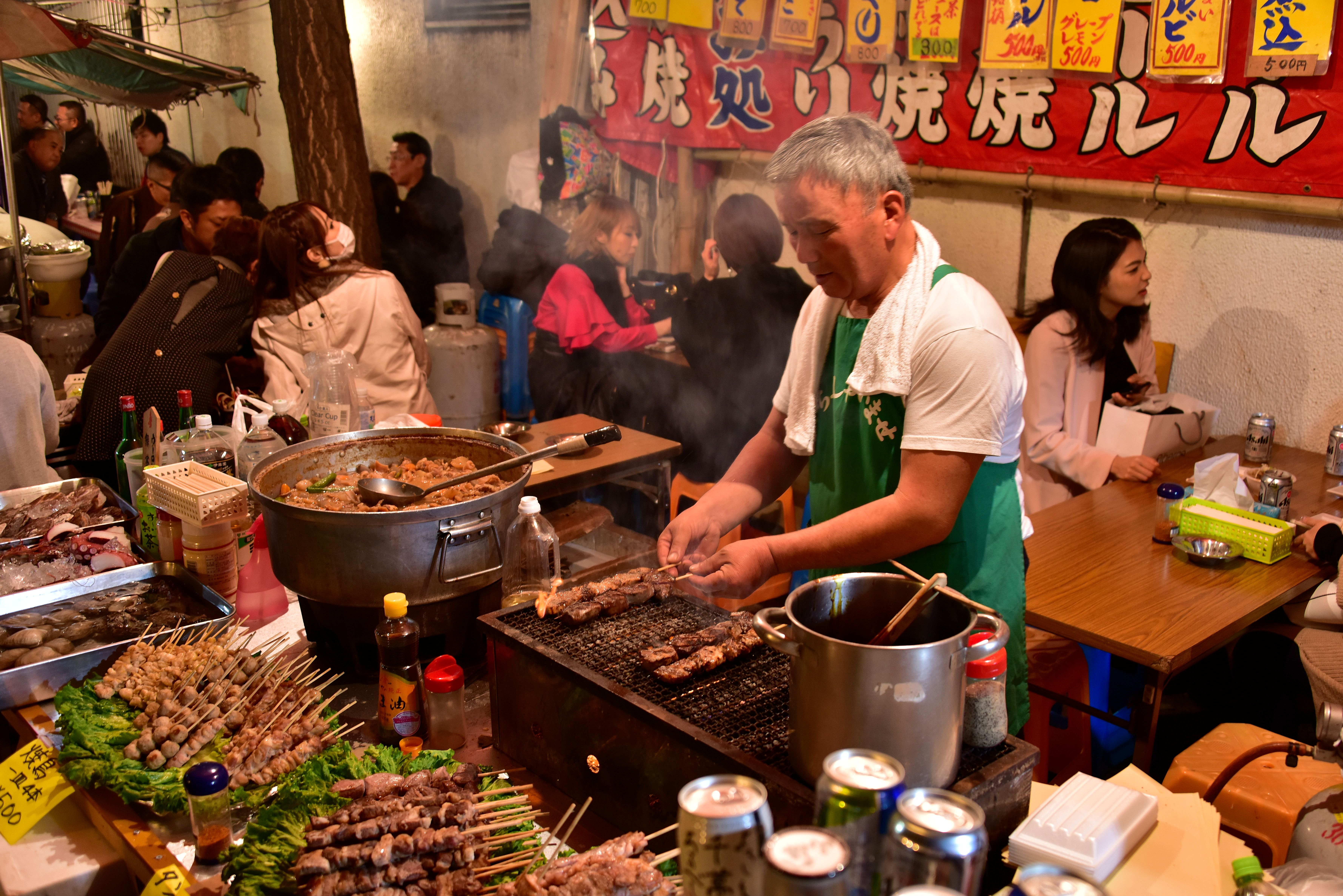 Street food in Shibuya, Tokyo